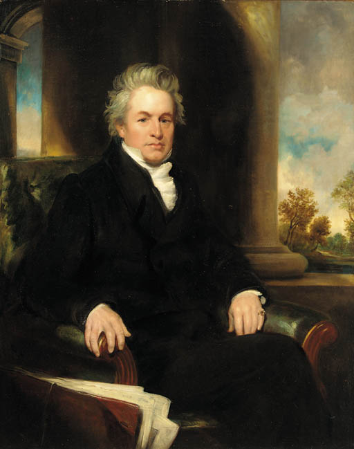 Portrait of Pascoe Grenfell MP (1761-1838)